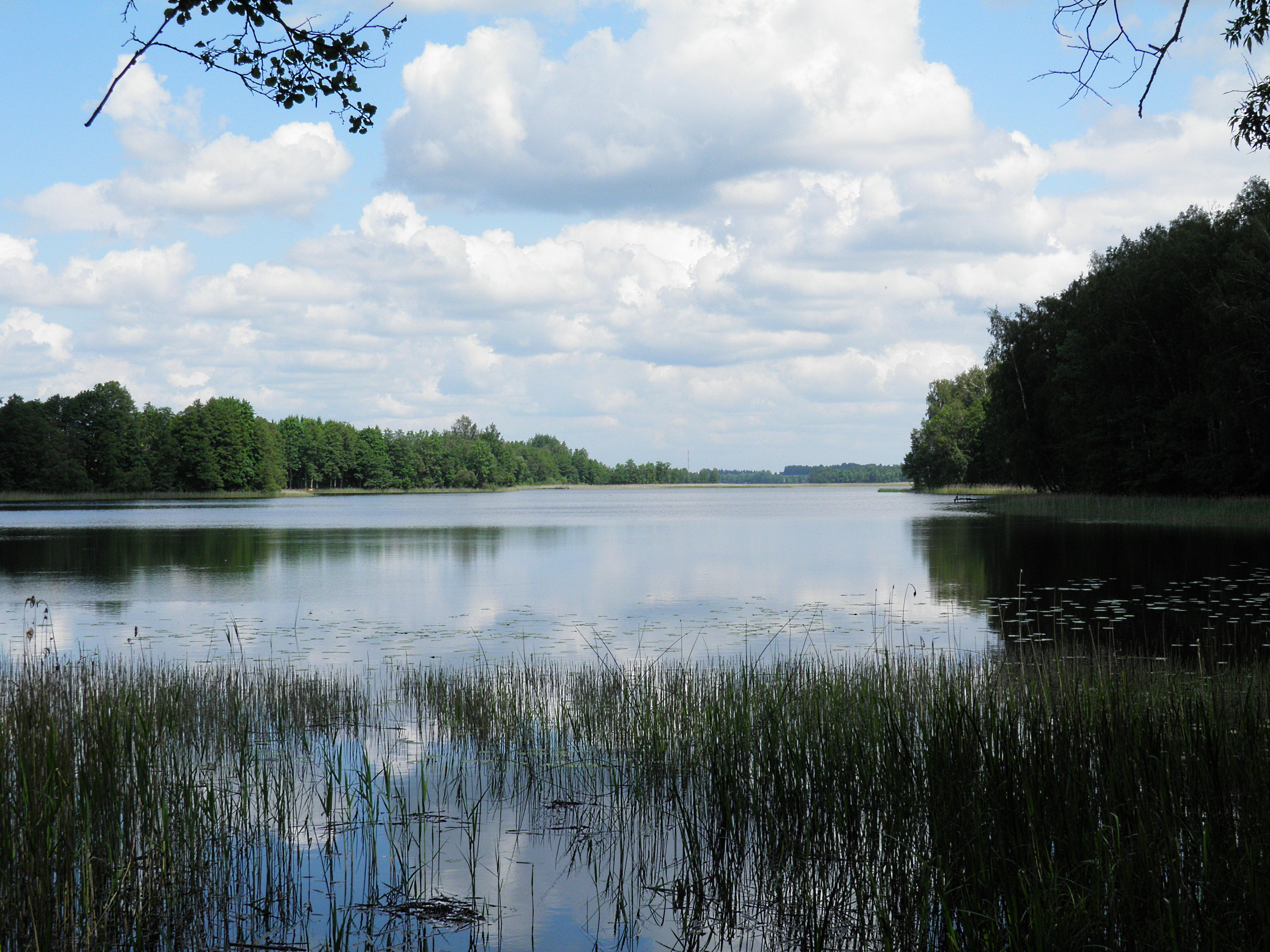 Čičirys lake in Lithuania.